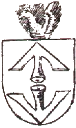 Coat of arms Bogoria from Herby polskie... by Antoni Swach